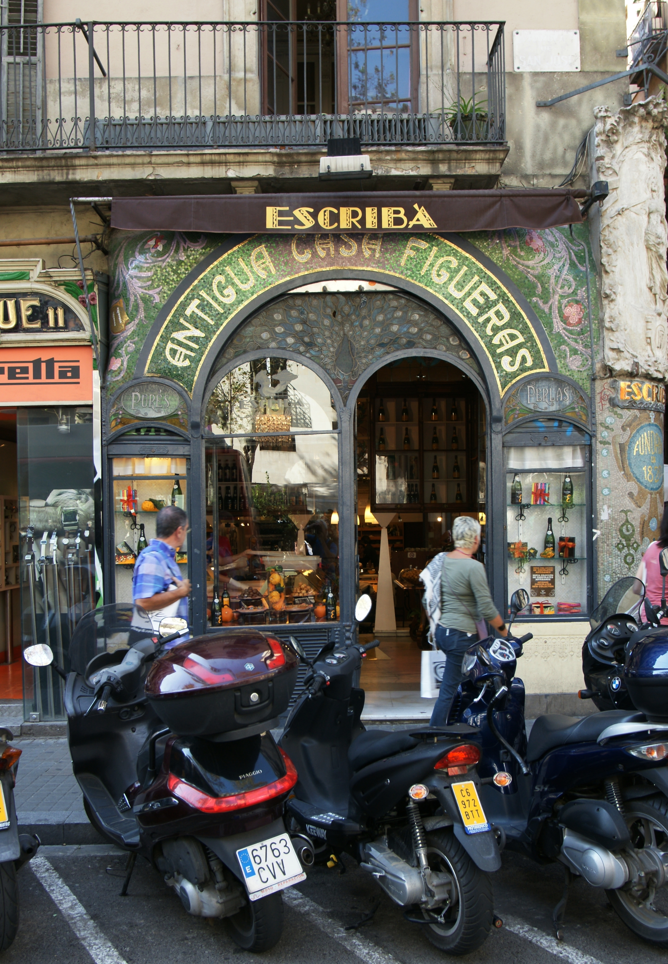 Antigua Casa Figueras - Catalan Modernisme (Antoni Ros i Güell, 1902)